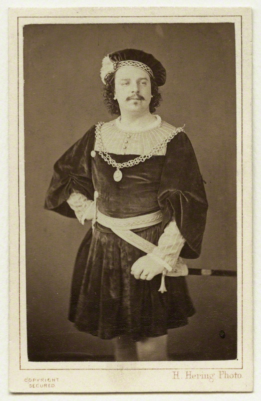 by Henry Hering, albumen carte-de-visite, 1863